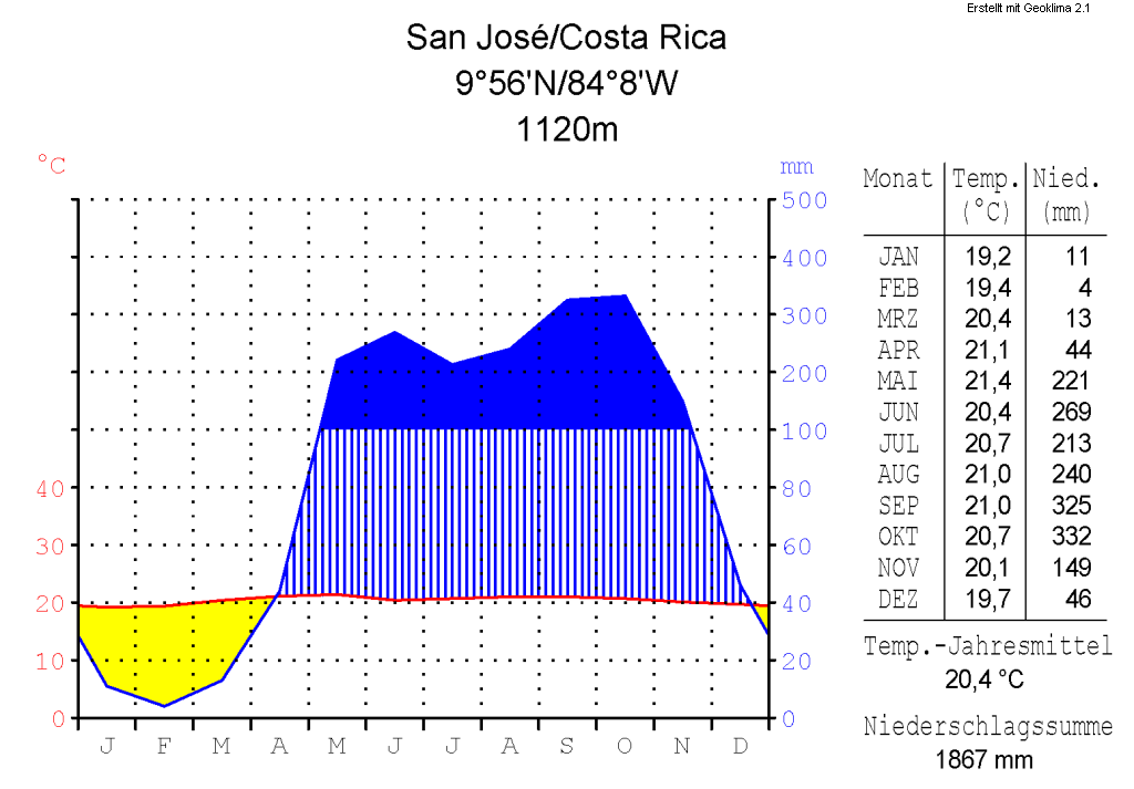 climate chart in the format by Walther and Lieth, metric, °Celsisus and millimeters, made with Geoklima 2.1